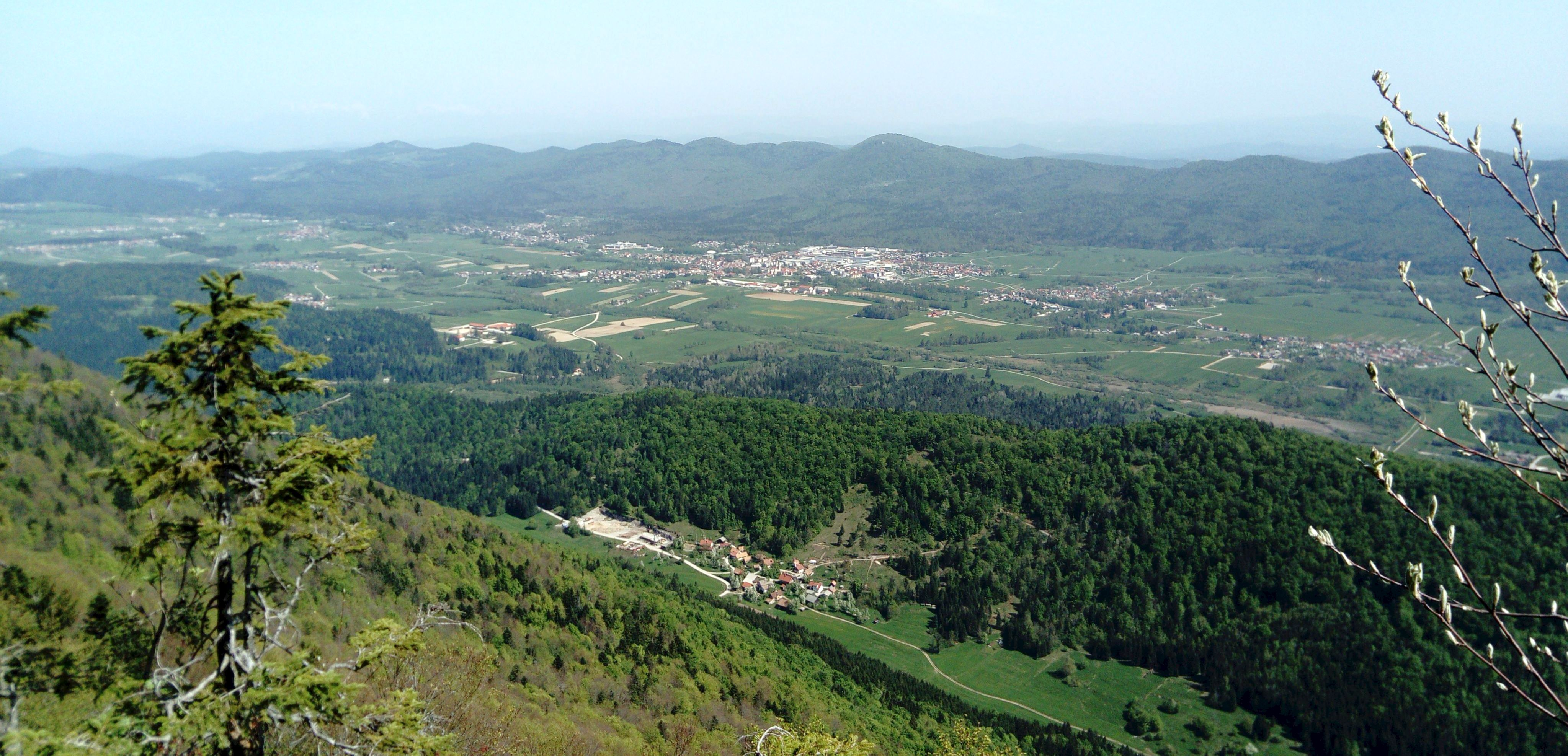 The Ribnica Valley or the Ribnica Field. A karst lowland in southern Slovenia. The largest settlement is Ribnica.